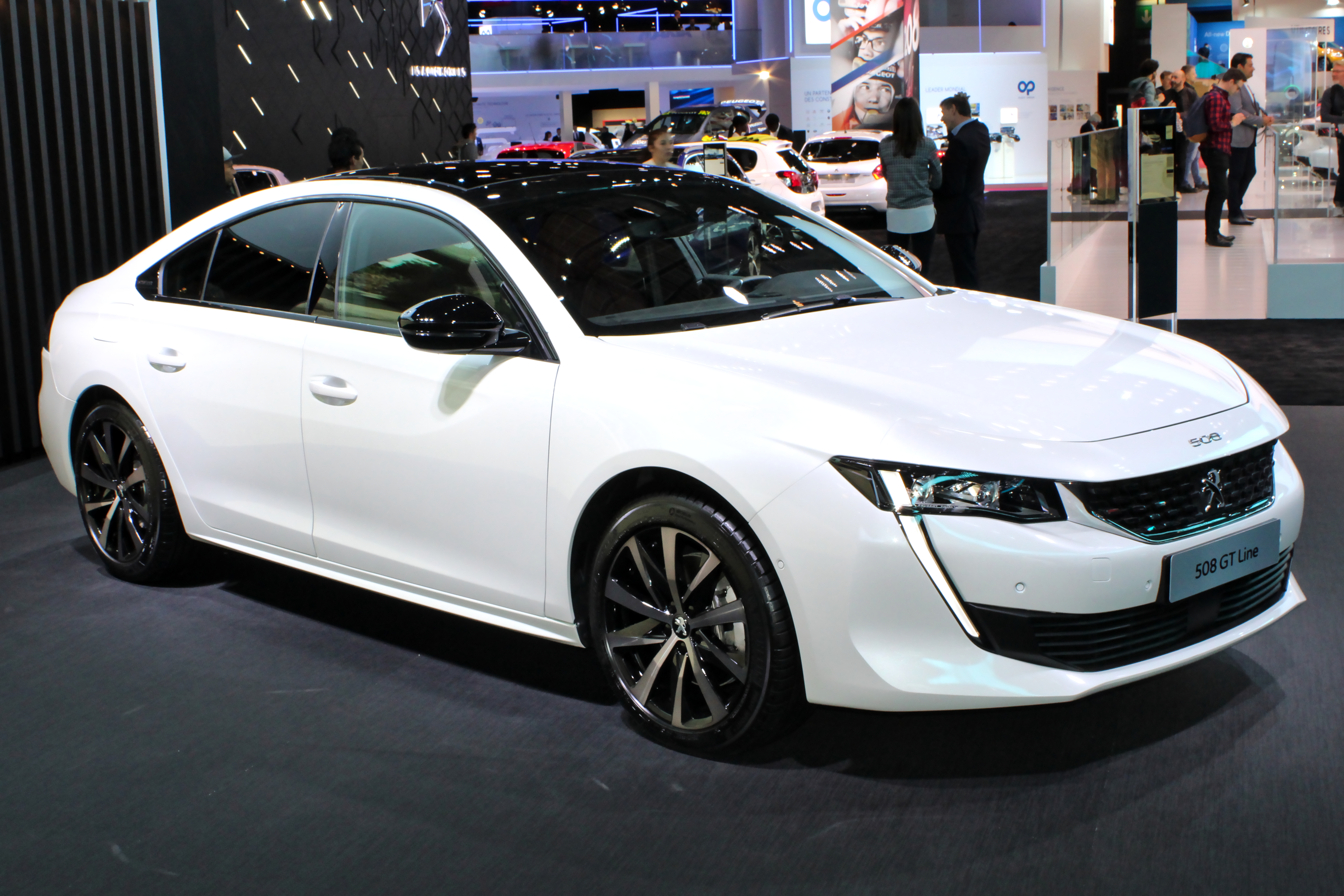 Peugeot 508 GT Line at Paris Motor Show 2018